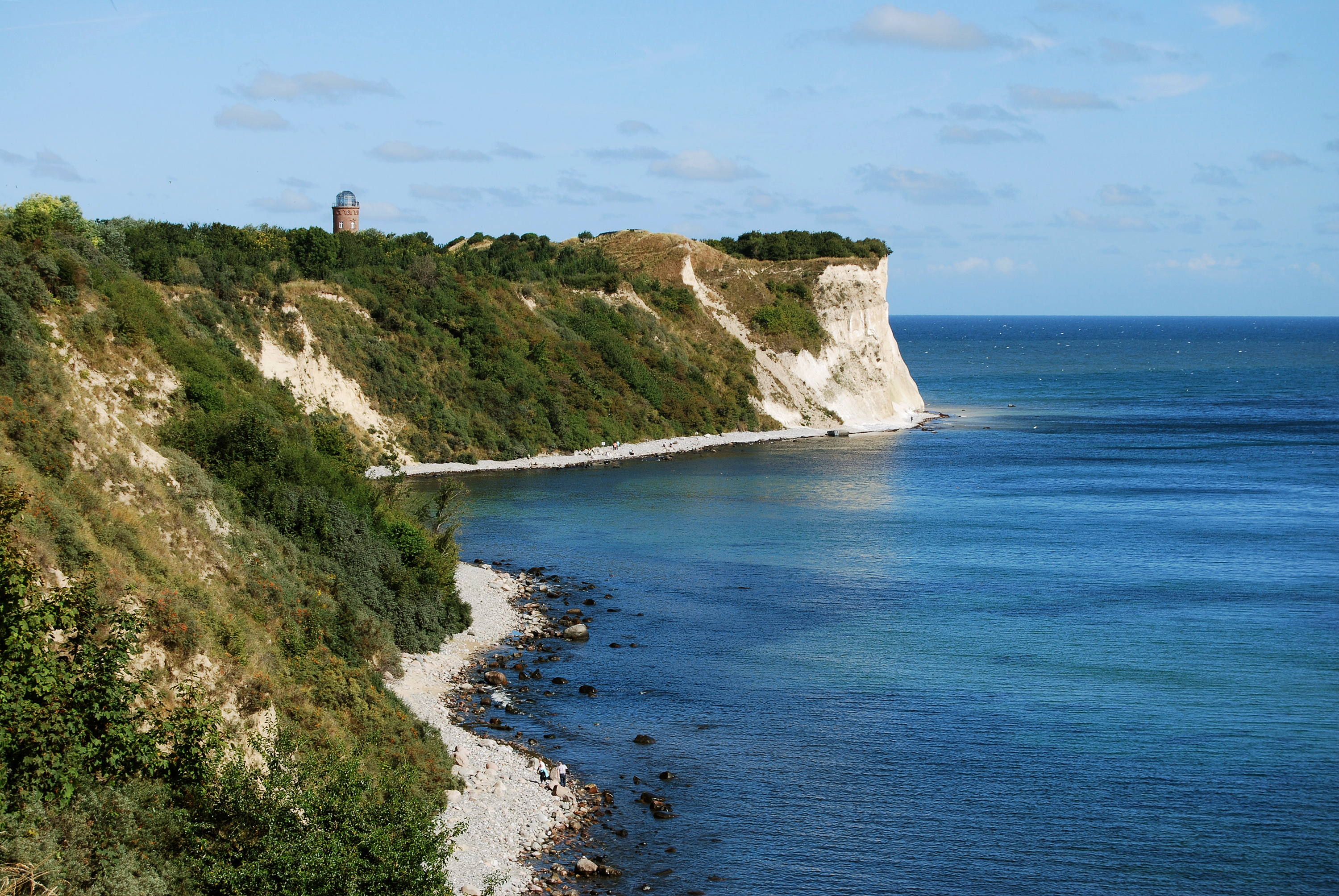 The Cape Arkona, the tip of the Wittow peninsula (in the north of the island of Rügen).